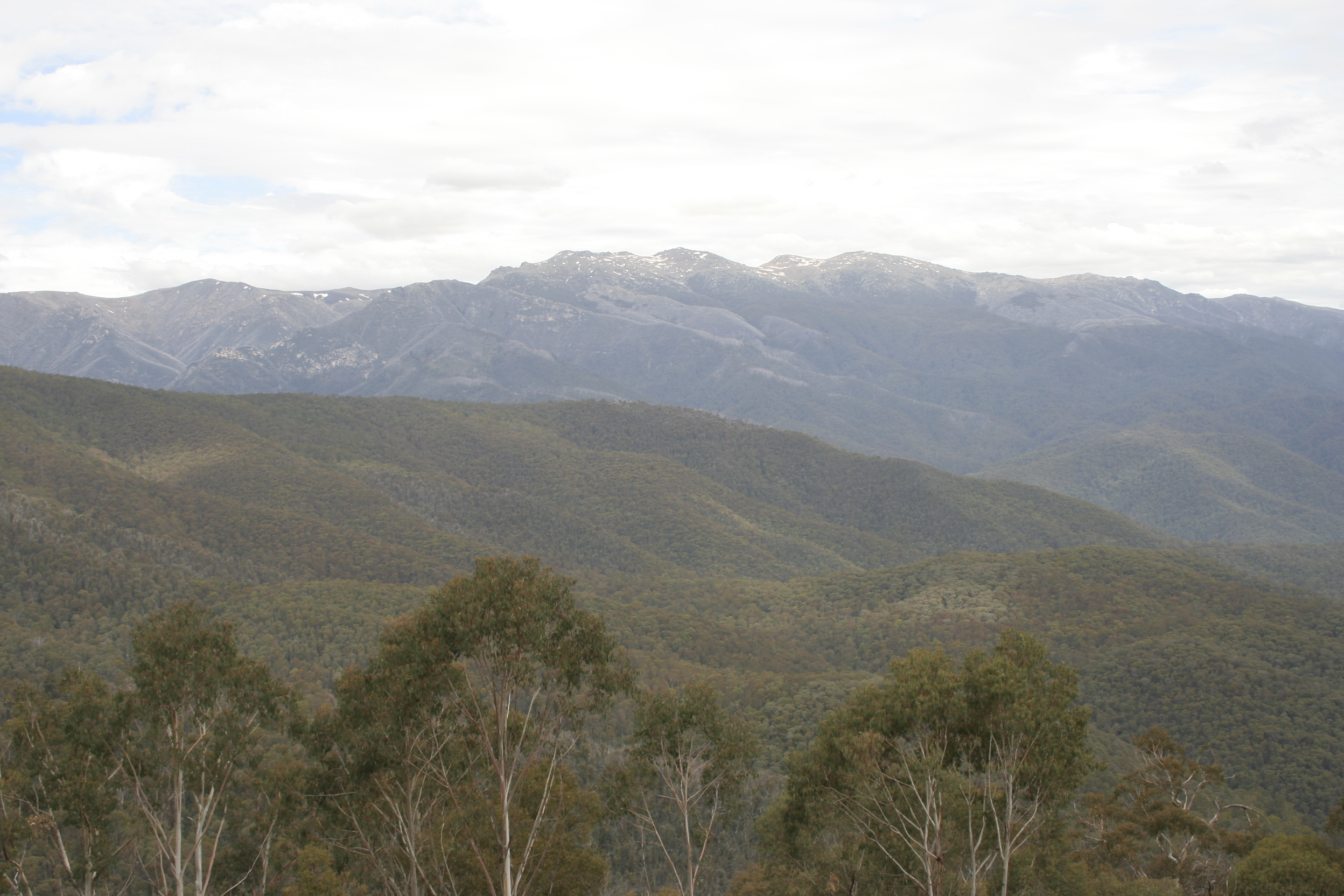 Geehi Walls near Mount Kosciuszko from the Alpine way.